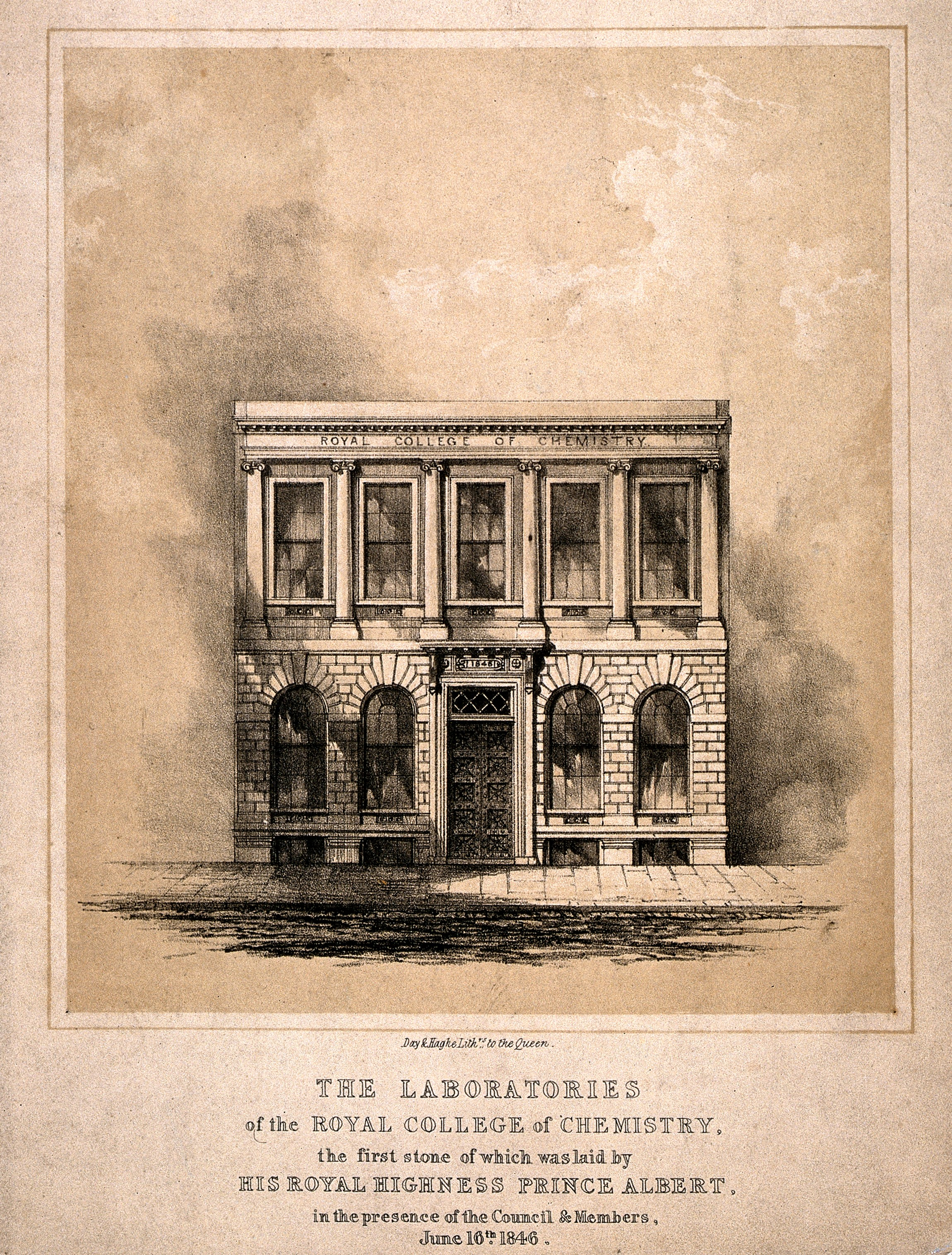 The Royal College of Chemistry: the laboratories. Lithograph by Day & Hague after J. Lockyer, 1846. Iconographic Collections Keywords: James Locker; Day & Haghe.